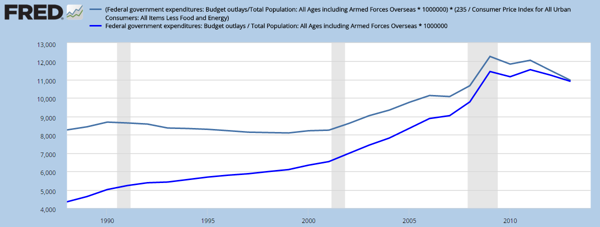 U.S. Federal spending per capita, nominal and inflation adjusted Understanding the chart The chart shows U.S. federal spending per person. The data comes from FRED (Federal Reserve Economic Data) database. The following data illustrates the computation for 2000: Spending = $1,789.1 trillion (Data series: M318191A027NBEA) Population = 282.296 million (Data series: POP) Spend per capita nominal = $6,337.32 CPI index (excluding food & energy) for 2013 = 234 and for 2000 it was 181 (Data series: CPILFESL) Spend per capita real = $6,337.32 * 234/181 = $8,193.[1]